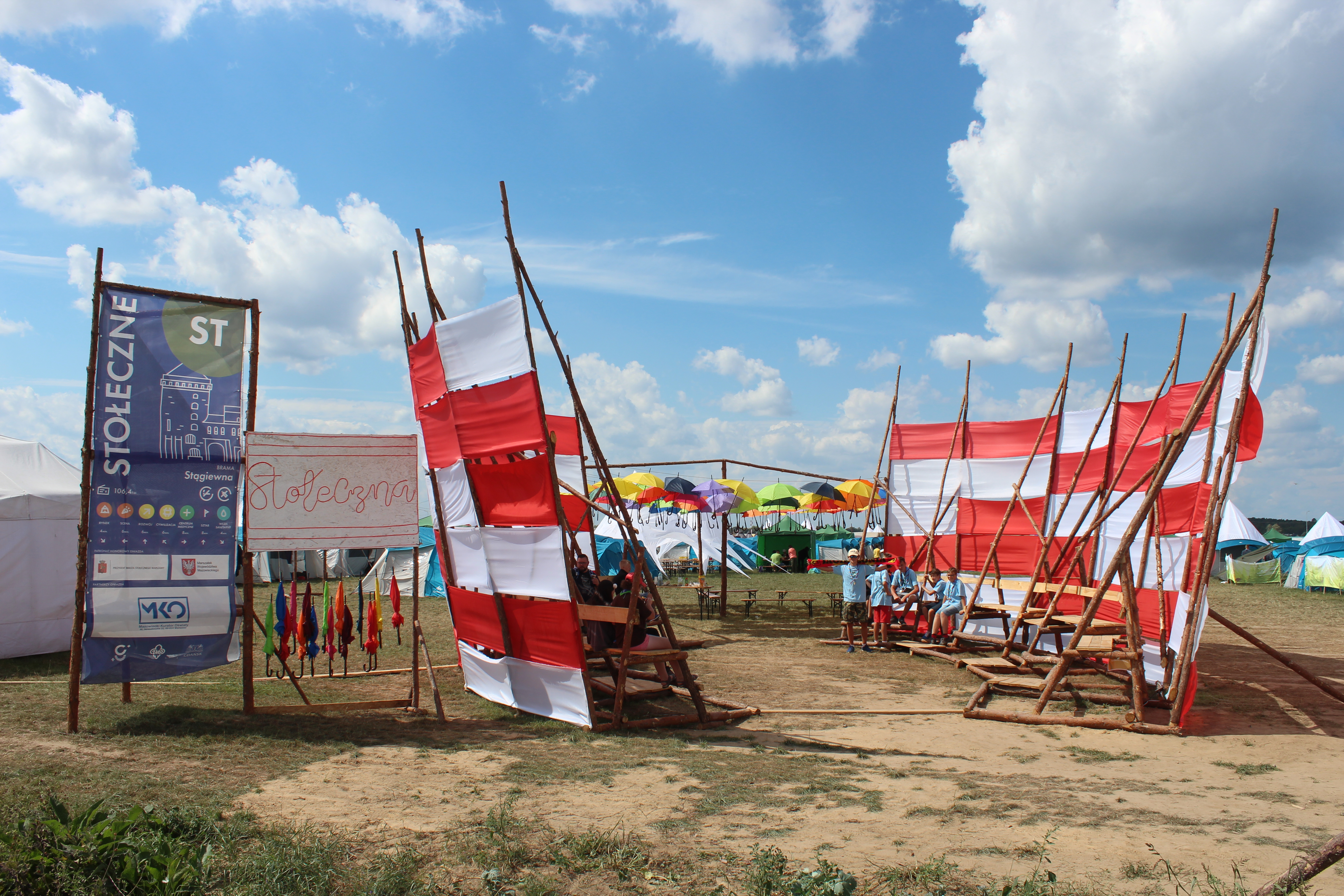 Gdańsk 2018 - Polish Scouting and Guiding Association Jamboree